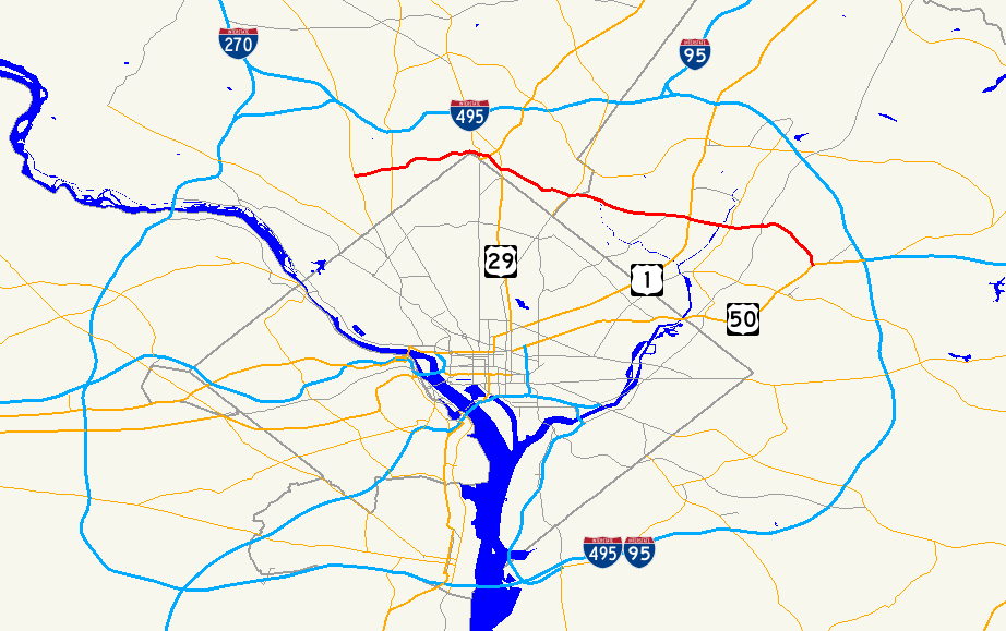 Map of Maryland Route 410